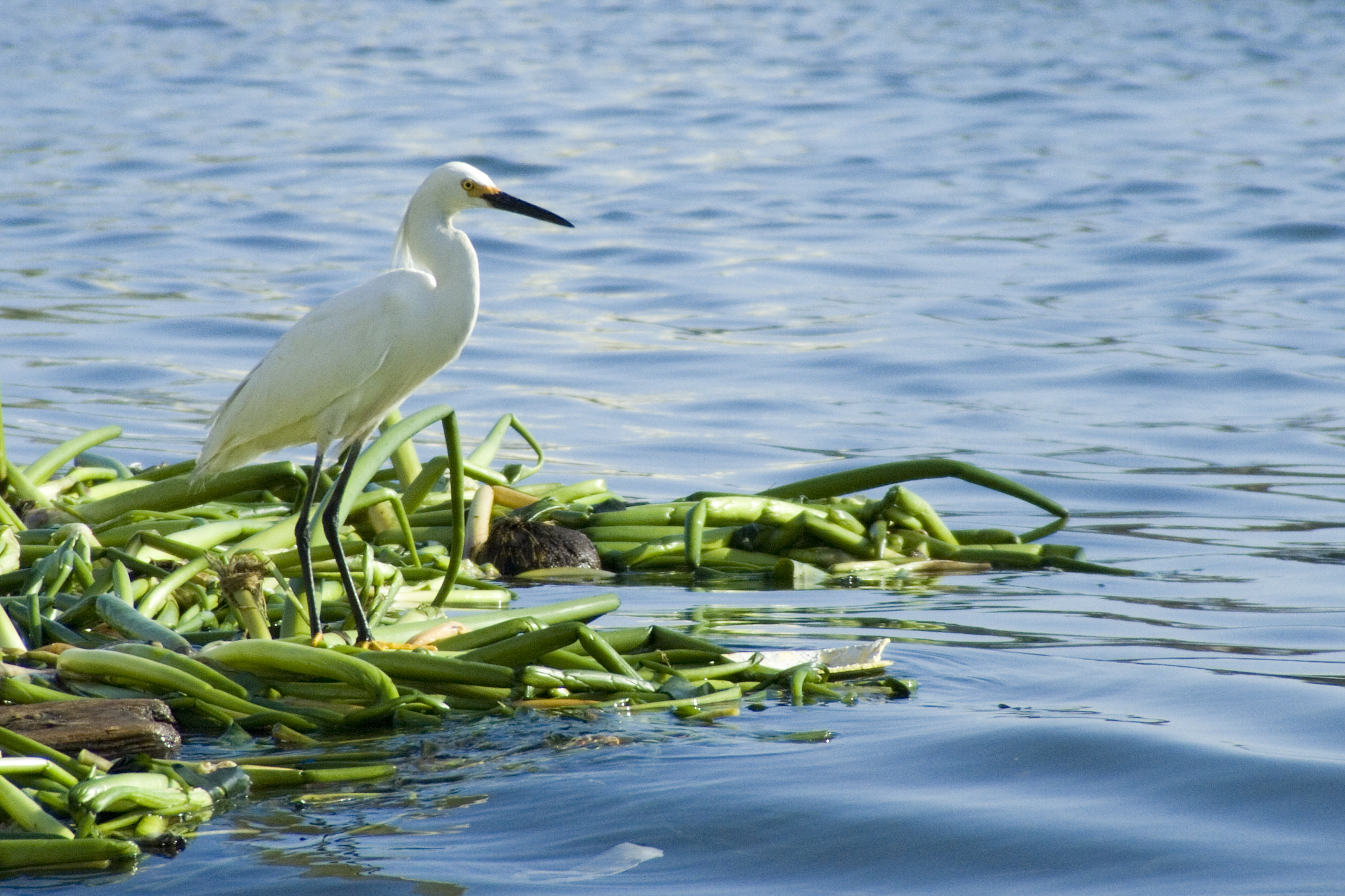 Snowy egret in the Almendares river mouth in Havana, Cuba.